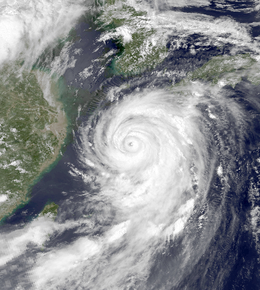 Typhoon Caitlin on July 28, 1991. At the time Caitlin had winds of 88.9 knts (102.3 mph, 164.8 kph), 1-min sustained and a pressure of 940 mbar. Caitlin was about 245 miles away from land. This image was taken by the NOAA-11 Satellite.